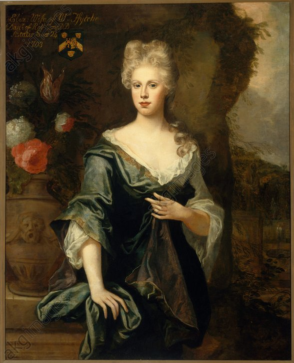 Portrait of Elizabeth (or Mary) Fytche, wife of William Fytche, English Member of Parliament for Maldon.